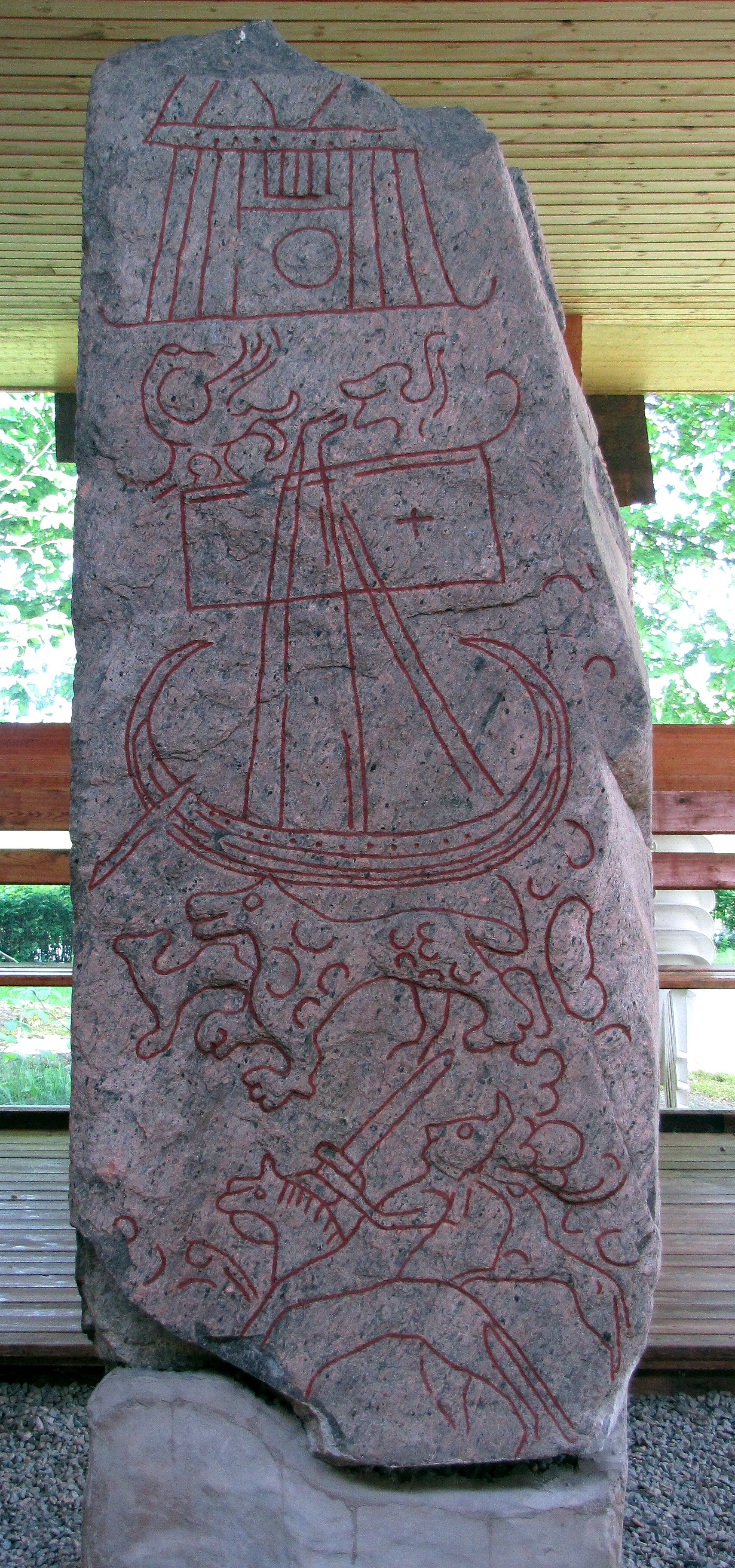 One of the four carved sides of the Sparlösa rune stone.